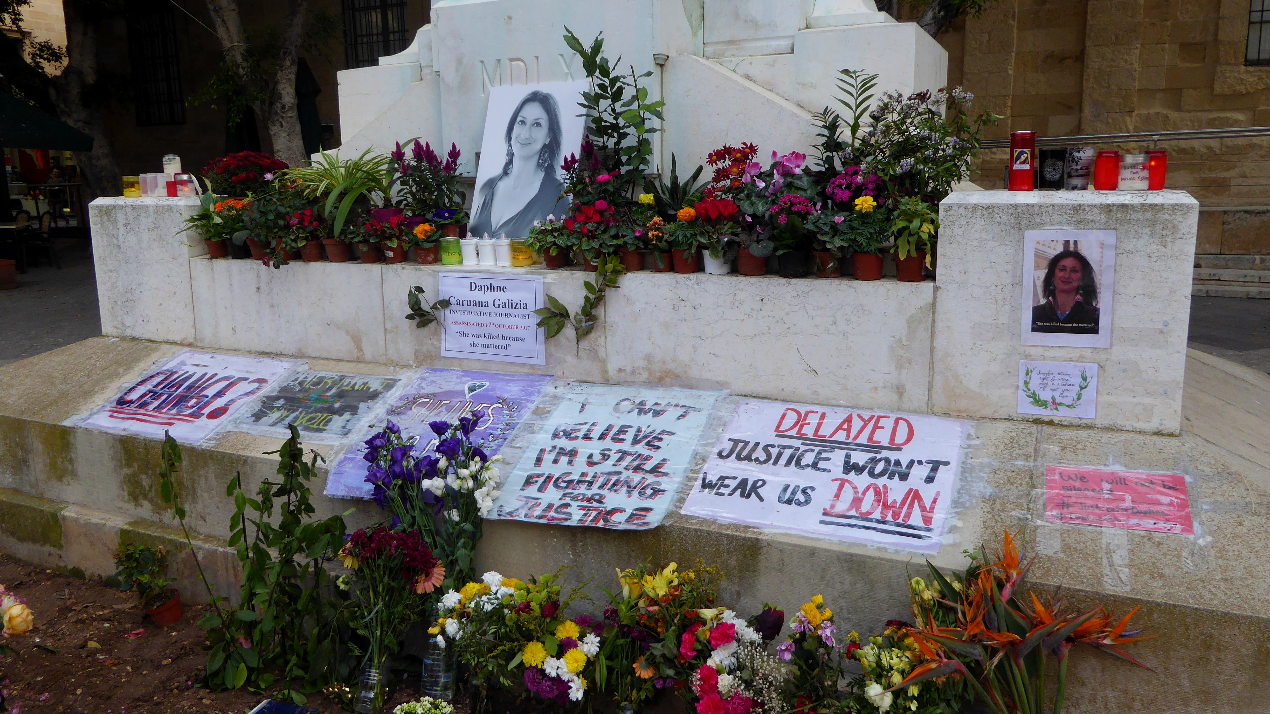 Memorial to murdered investigative journalist Daphne Caruana Galizia at the foot of the Great Siege Monument in Valletta, Malta.